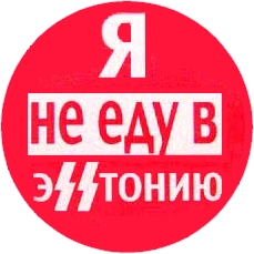 Badge produced by a Russian newspaper used for a campaign.